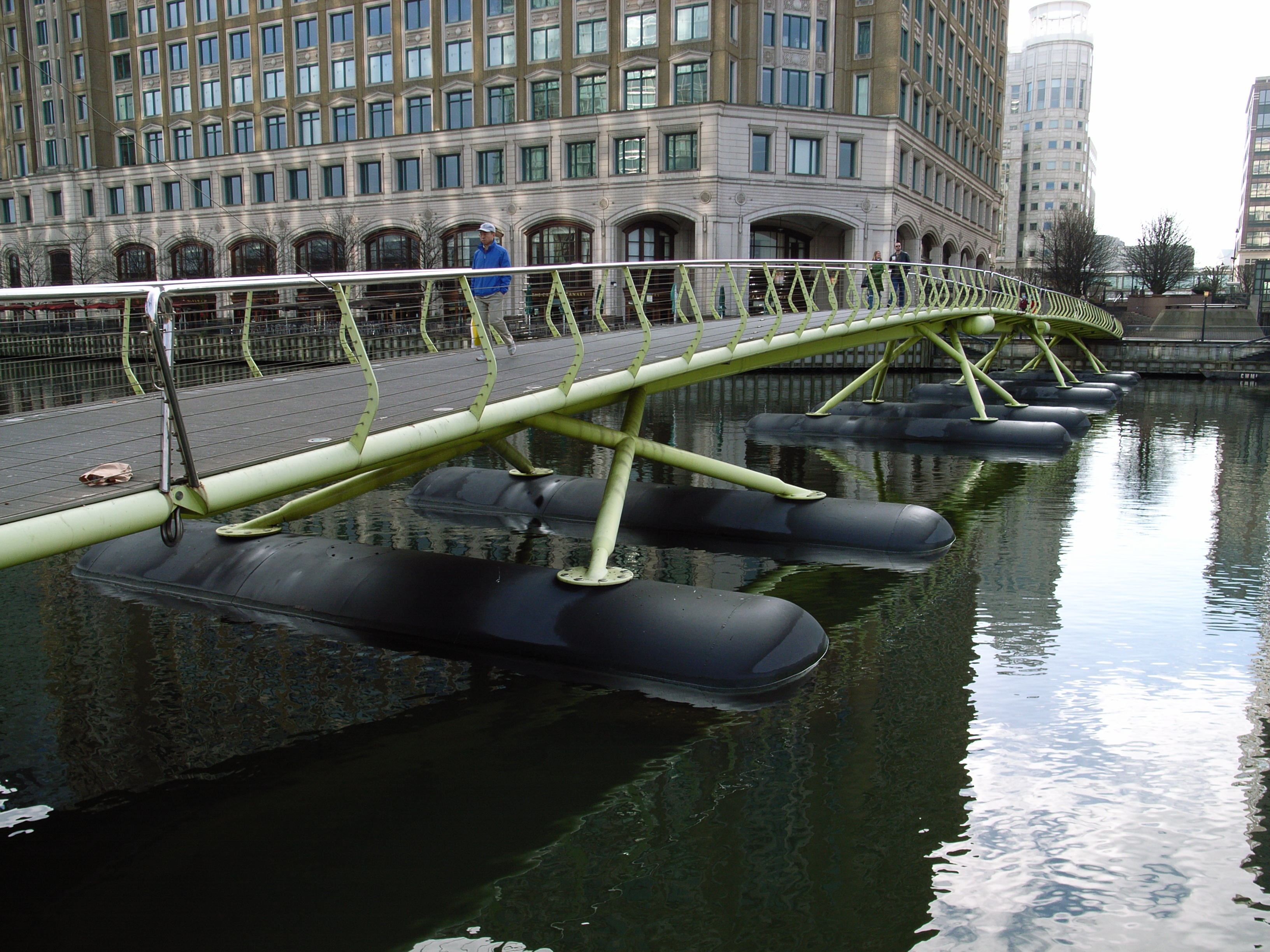 A pontoon bridge (1996) at West India Quay in the London Docklands, London, England, UK, designed by Future Systems.